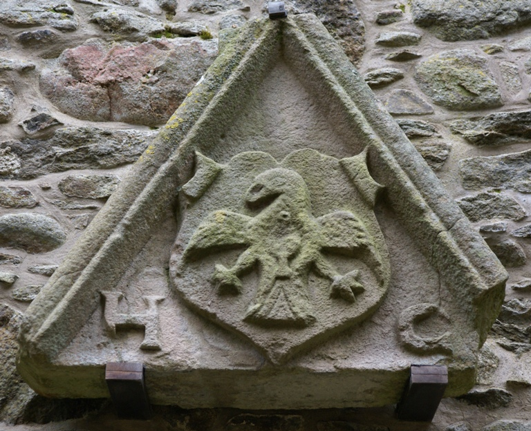 Glenbuchat Castle, Aberdeenshire, Scotland - carving